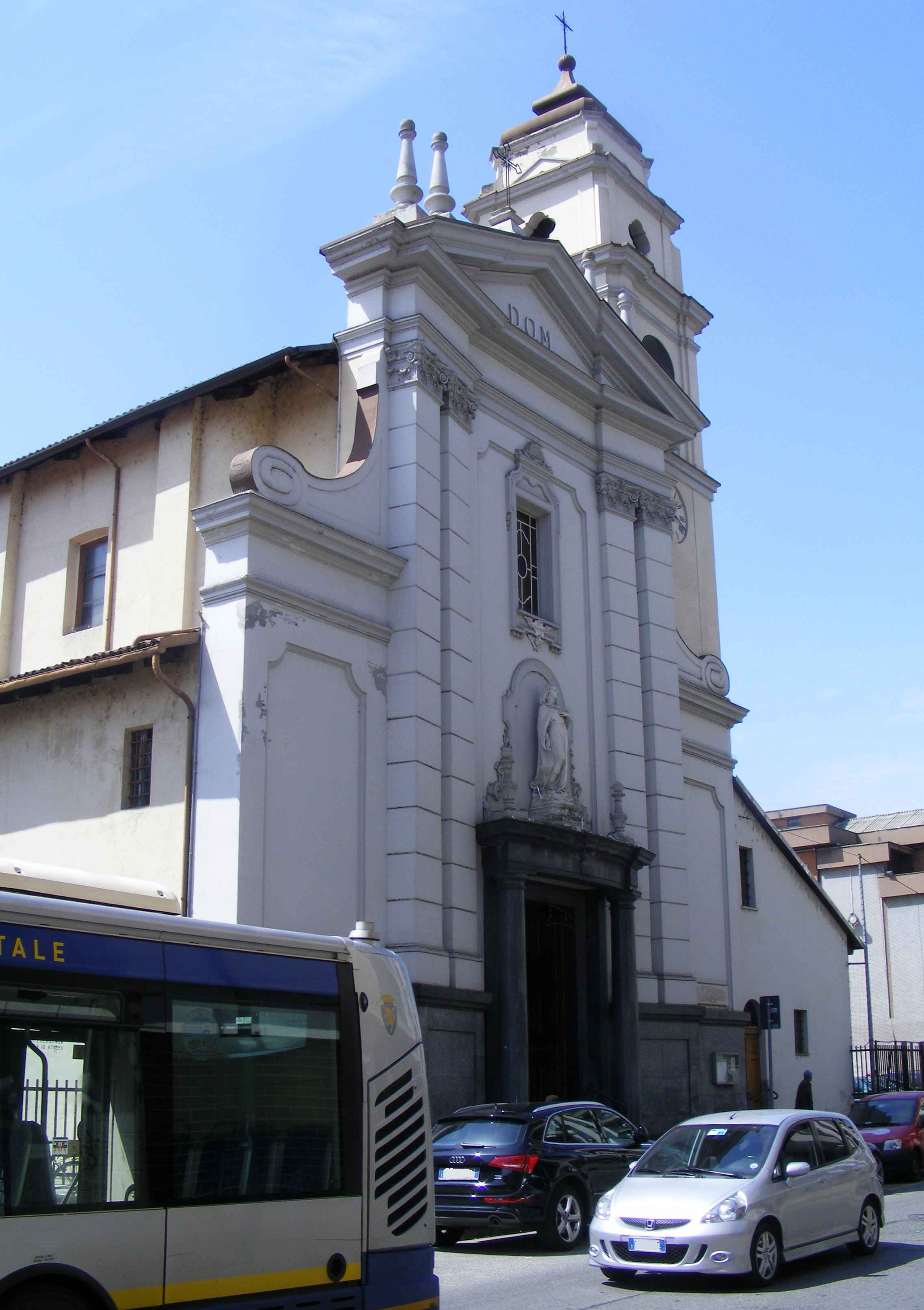 Turin, church of Mary's nativity